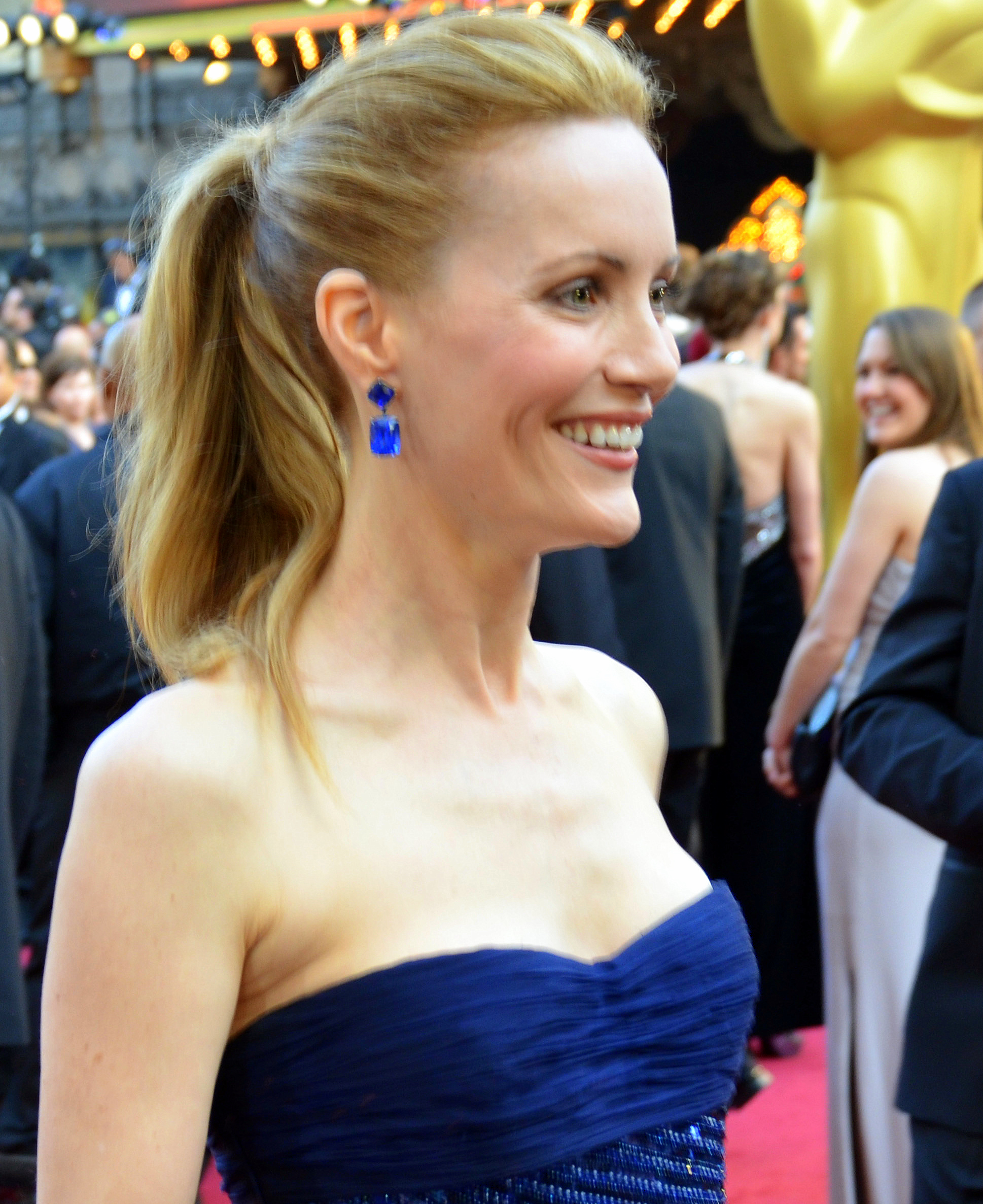 Leslie Mann at the 84th Annual Academy Awards Red Carpet 2012.